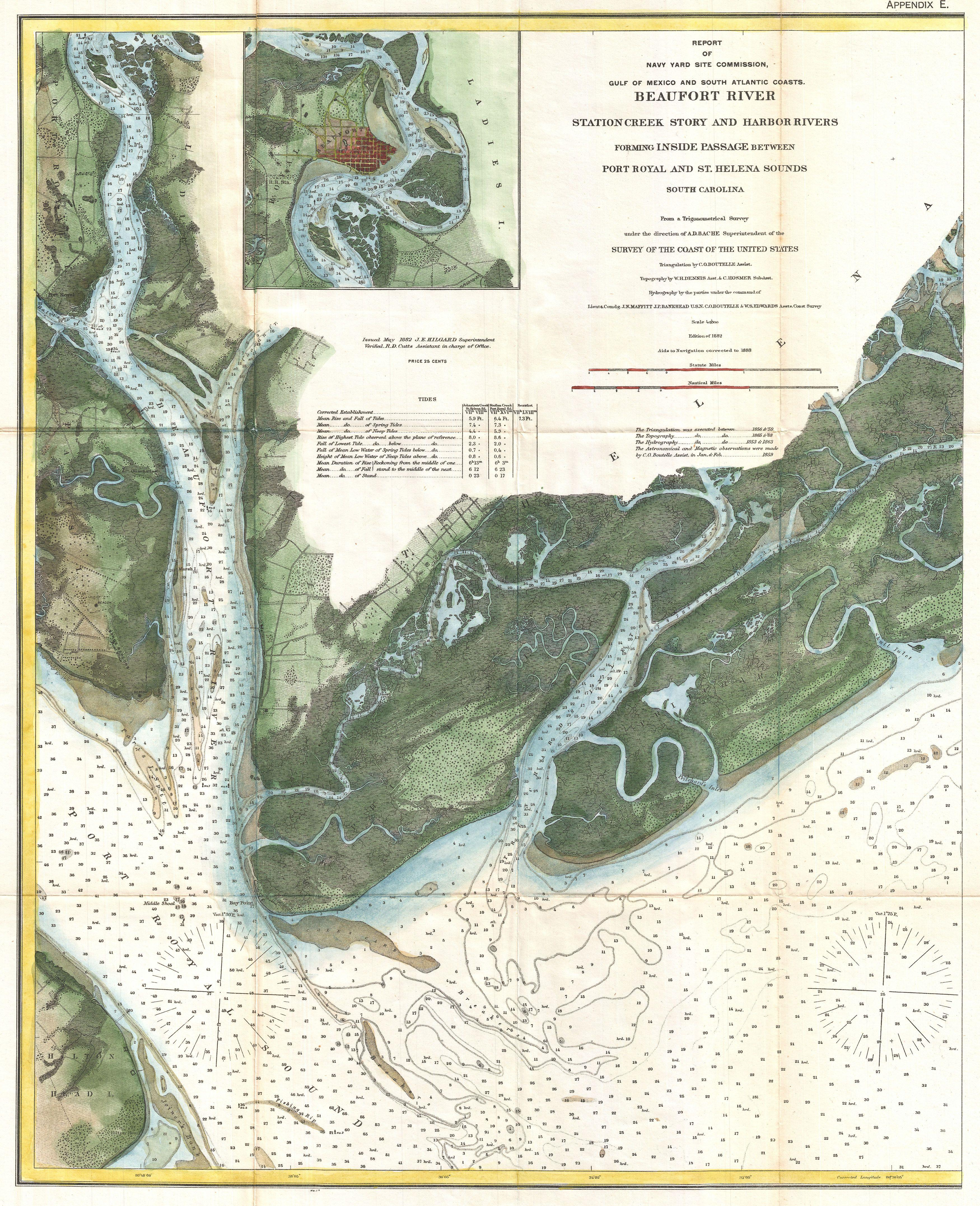 A beautiful example of the 1882 U.S. Coast Survey chart or map of the Beaufort River, South Carolina. Covers from Port Royal Island to Hilton Head and east as far as Skill Inlet on Pritchard Island. Offers stunning inland detail as well as thousands of depth sounding. An inset of Beaufort, considered one of the most beautiful towns in South Carolina, appears in the upper left quadrant. The triangulation for this chart was completed by C. G. Boutelle. The topography is the work of W. H. Dennis and C. Hosmer. The Hydrography was completed by a party under the command of J. N. Maffit, J.F. Bankhead, C. O. Boutelle and W. S. Edwards. The original chart, which appeared in 1864, was produced under A. D. Bache, superintendent of the Survey. This edition has been updated to 1882 under the supervision of J.K Hilgard and J. D. Cutts.